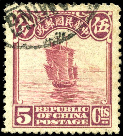 China 5-cent stamp of 1923